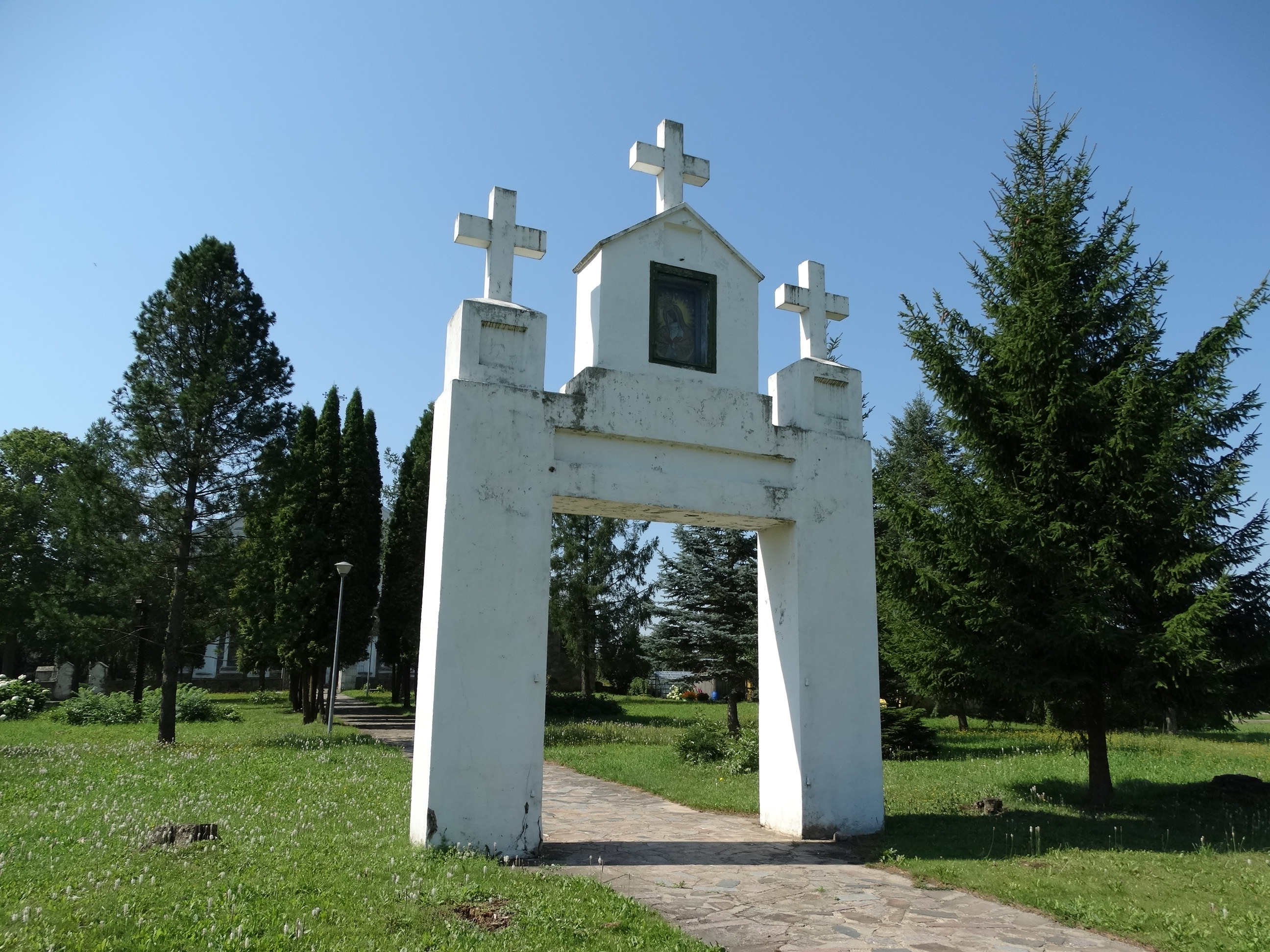 Gates in Kriaunos, Rokiškis District, Lithuania